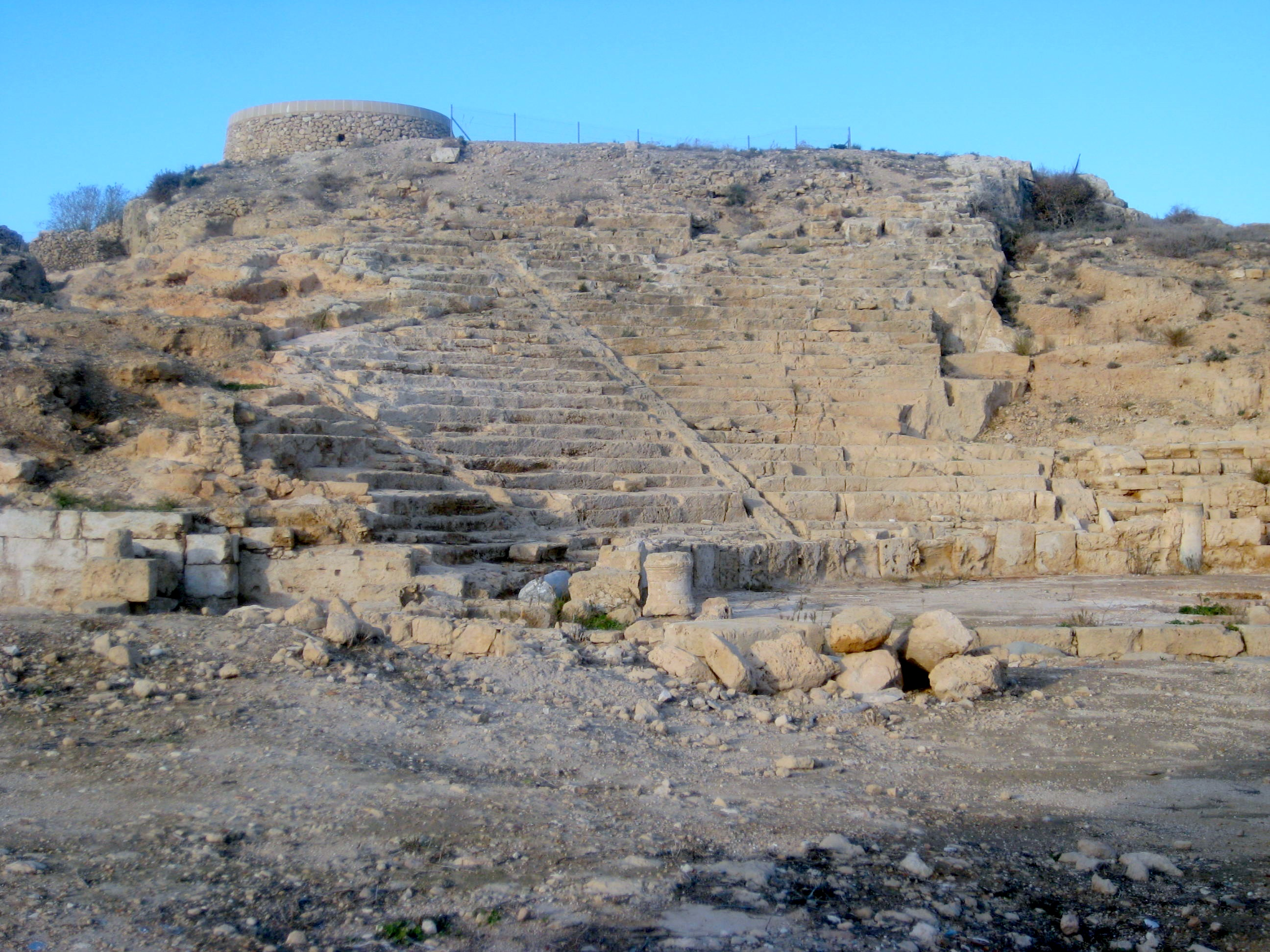 Theatre of Kato Paphos, at the Fabrika hill. Built in 300 BC.